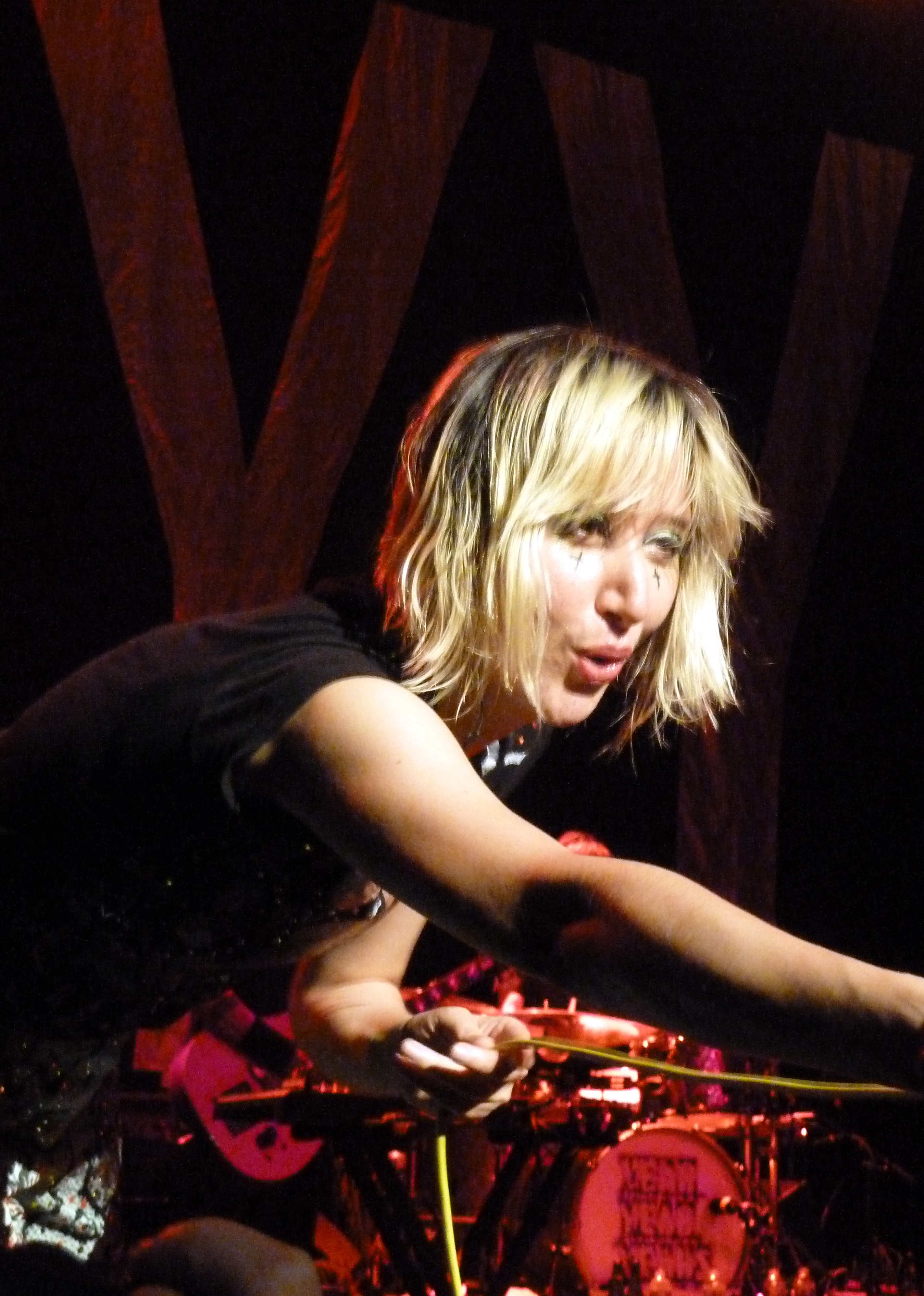 Karen O performing with Yeah Yeah Yeahs in Detroit in 2013